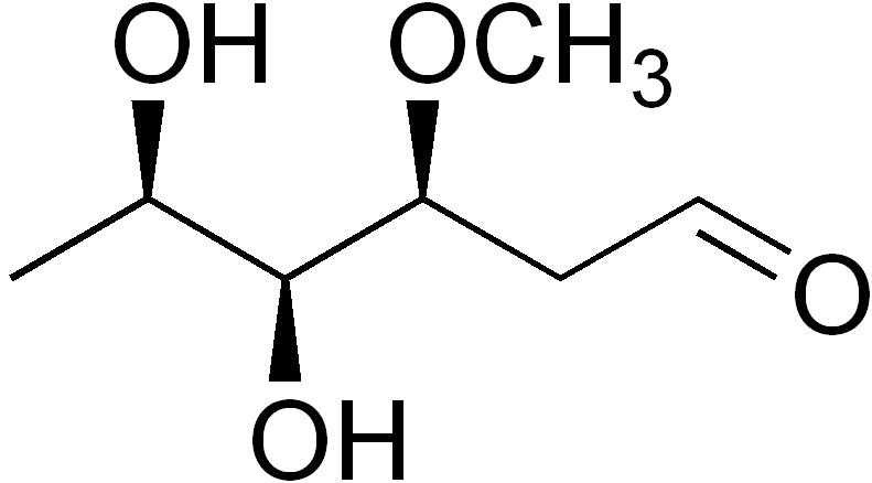 chemical structure of D-sarmentose